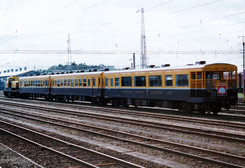 The JR East Nostalgic View Train sightseeing train formed of three converted 50 series coaches and hauled by a dedicated Class DE10 diesel locomotive